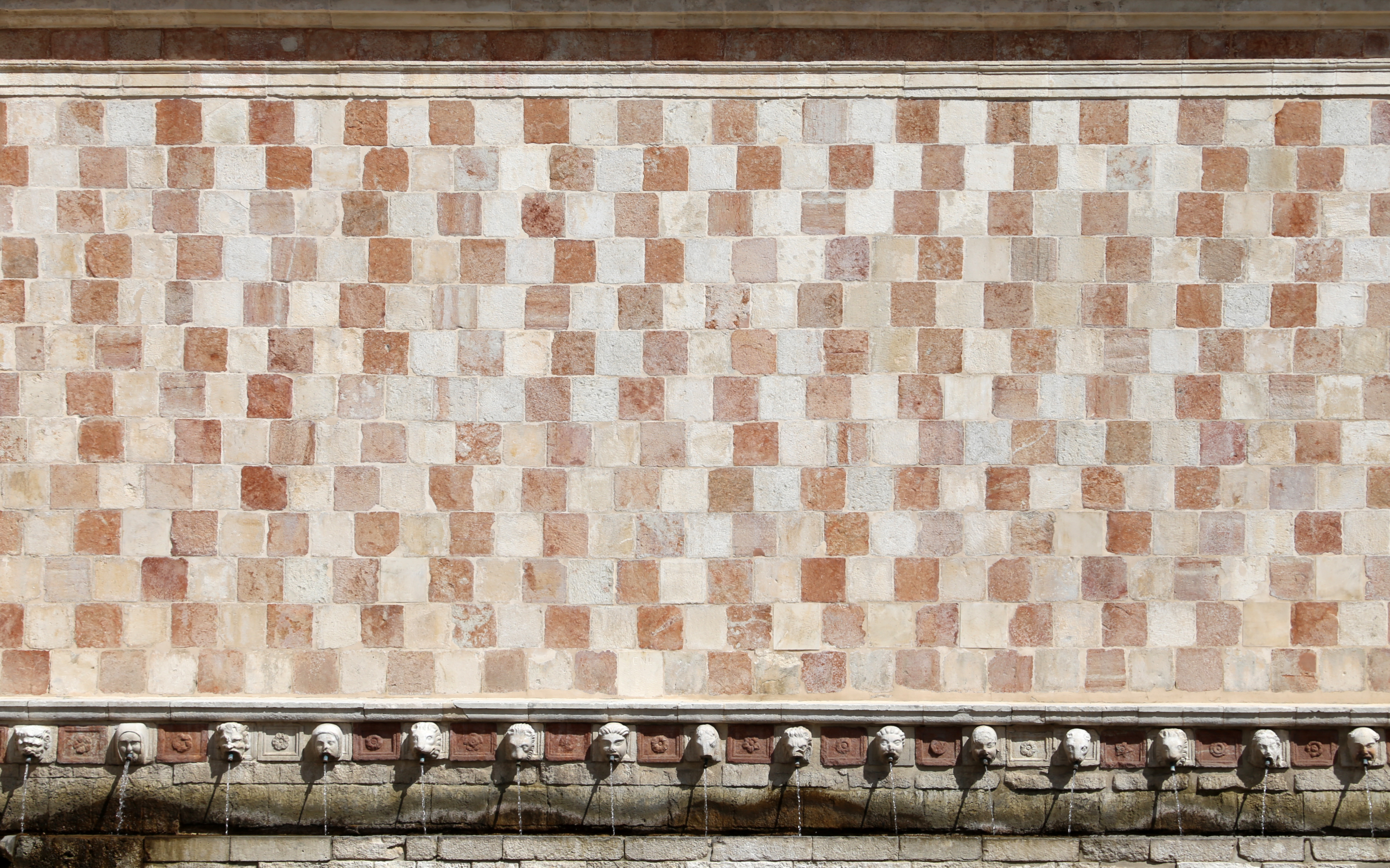 Fontana delle 99 cannelle (L'Aquila)